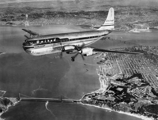 Catalog #: 00061821 Manufacturer: Boeing Designation: 377 Official Nickname: Stratocruiser Notes: Repository: San Diego Air and Space Museum Archive